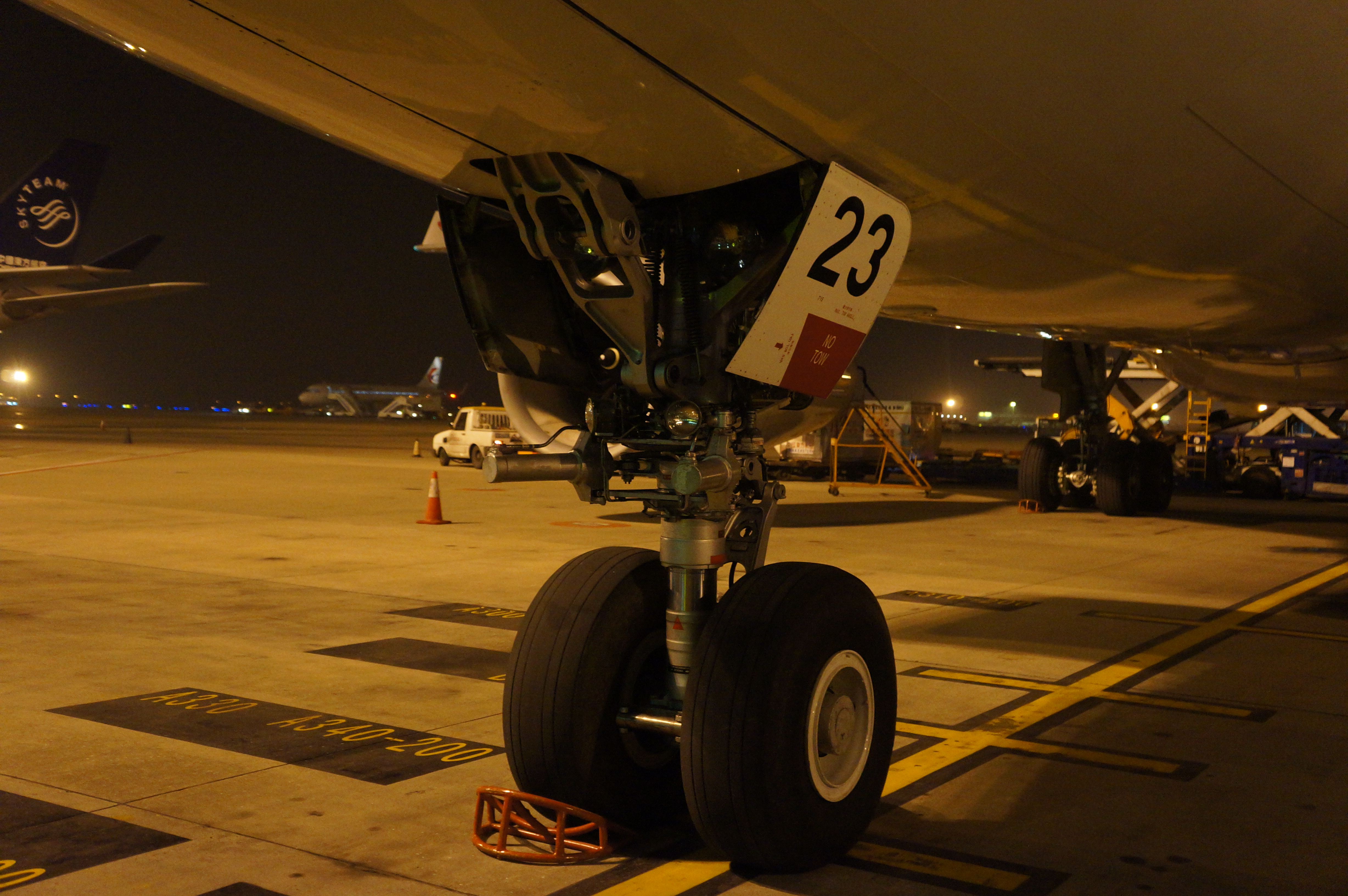 201611 Front landing gear of B-6123. Taken me from HKG